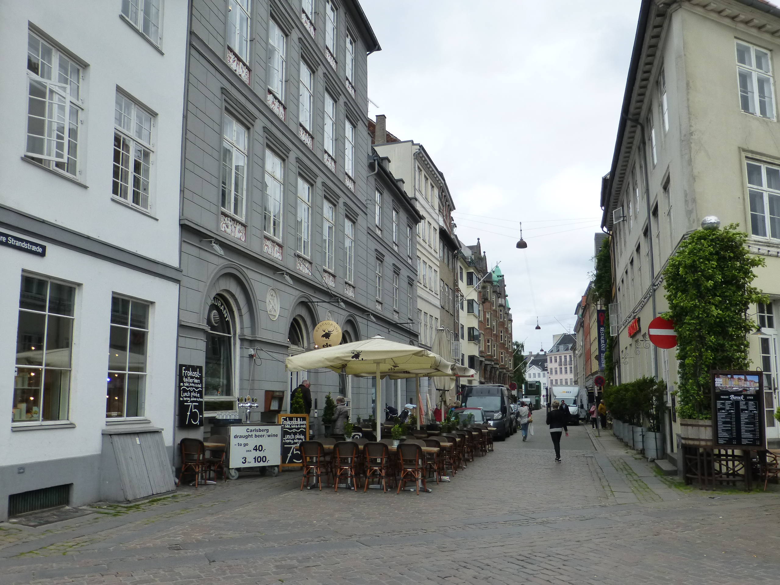 The street Store Strandstræde in Indre By in Copenhagen.